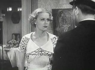 Cropped screenshot of Gloria Stuart from the film Here Comes the Navy